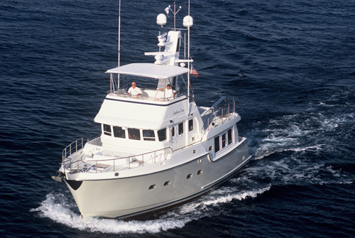 Overhead view of a Nordhavn 47 ft. Trawler-style pilothouse yacht.